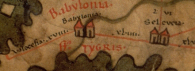 Peutinger Map showing Babylon & Seleuicia